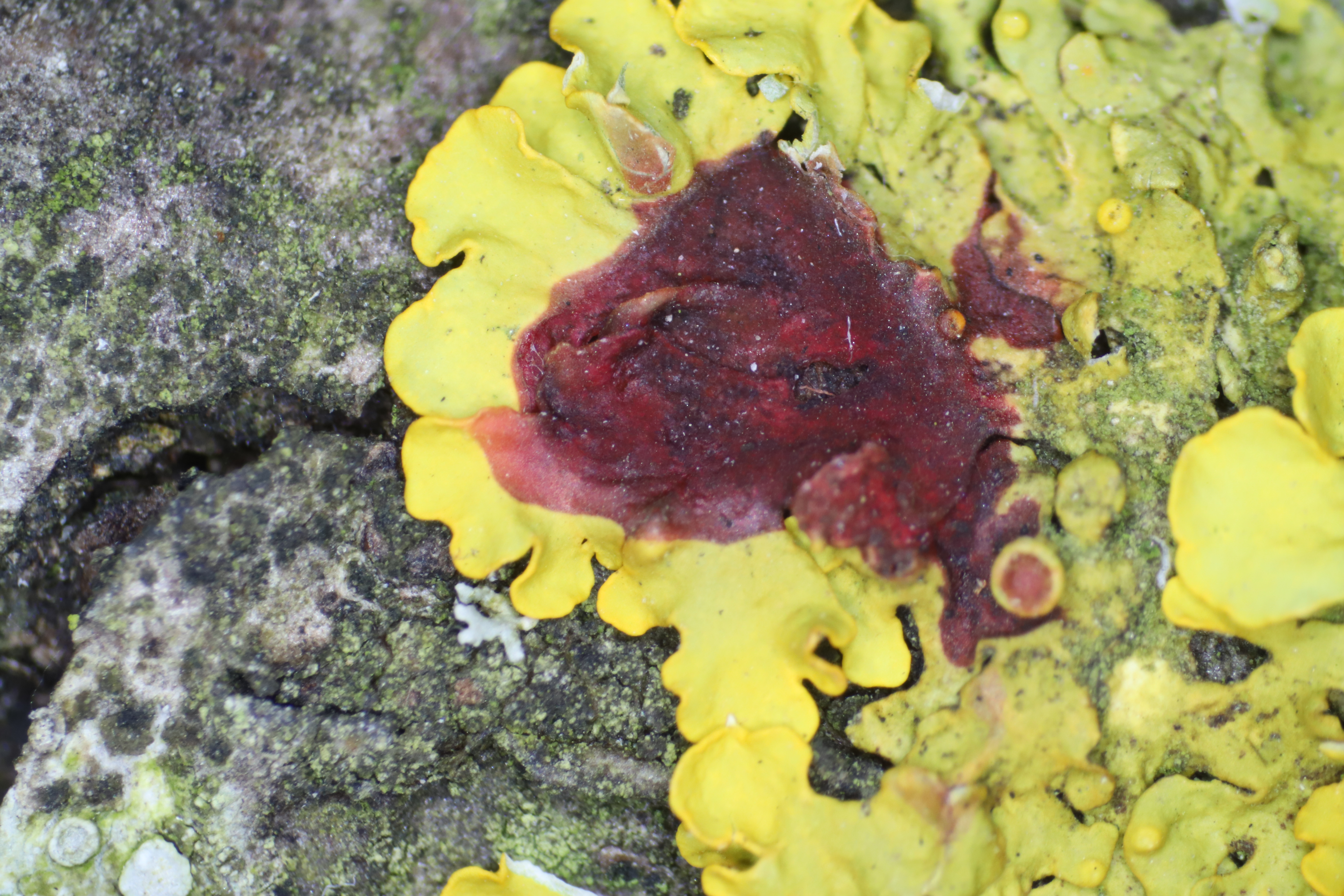 The reaction with potassium is an important character für determining lichens